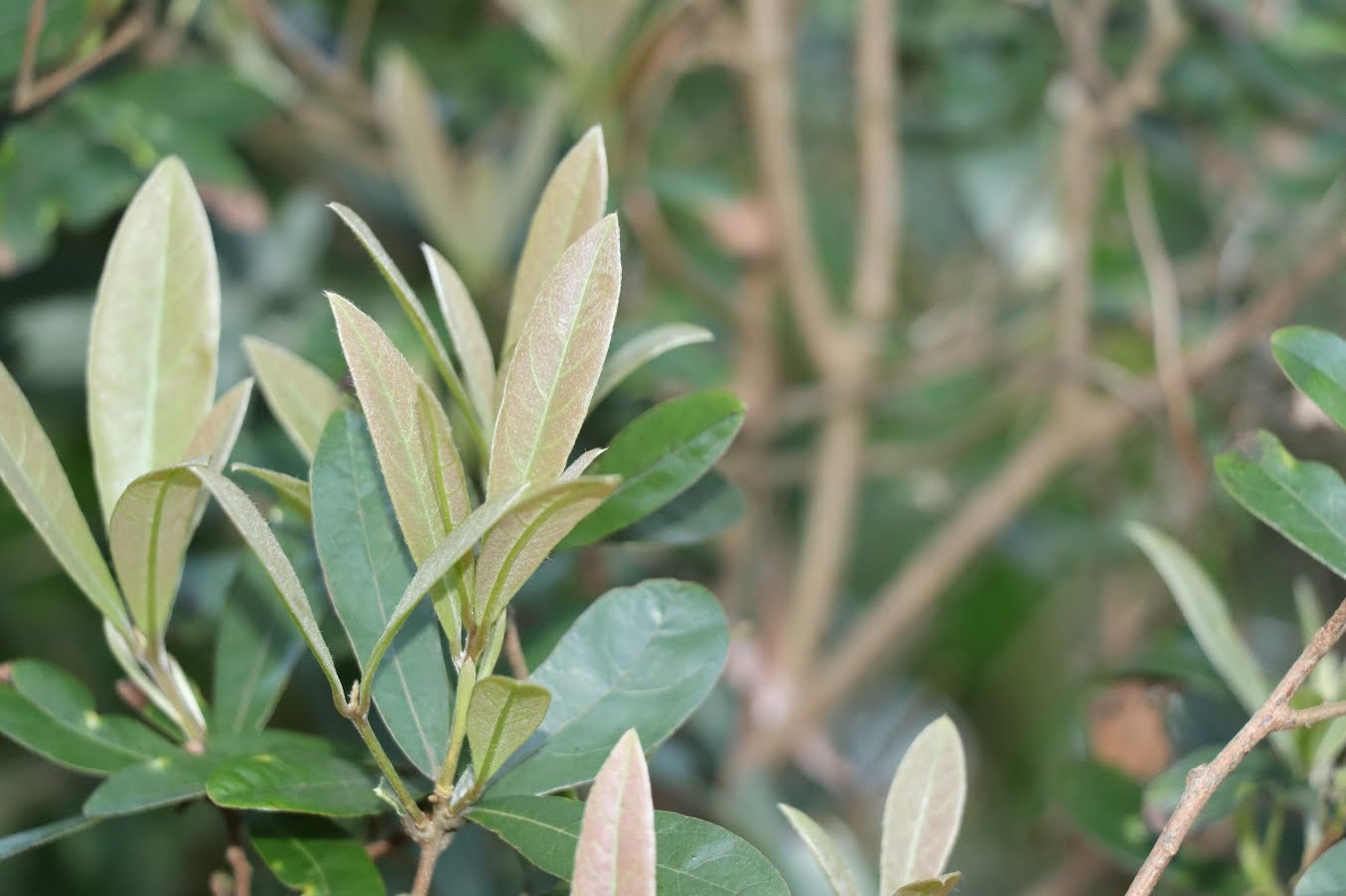 This plant is Litsea hypophaea Hayata which distribute in Taiwan.